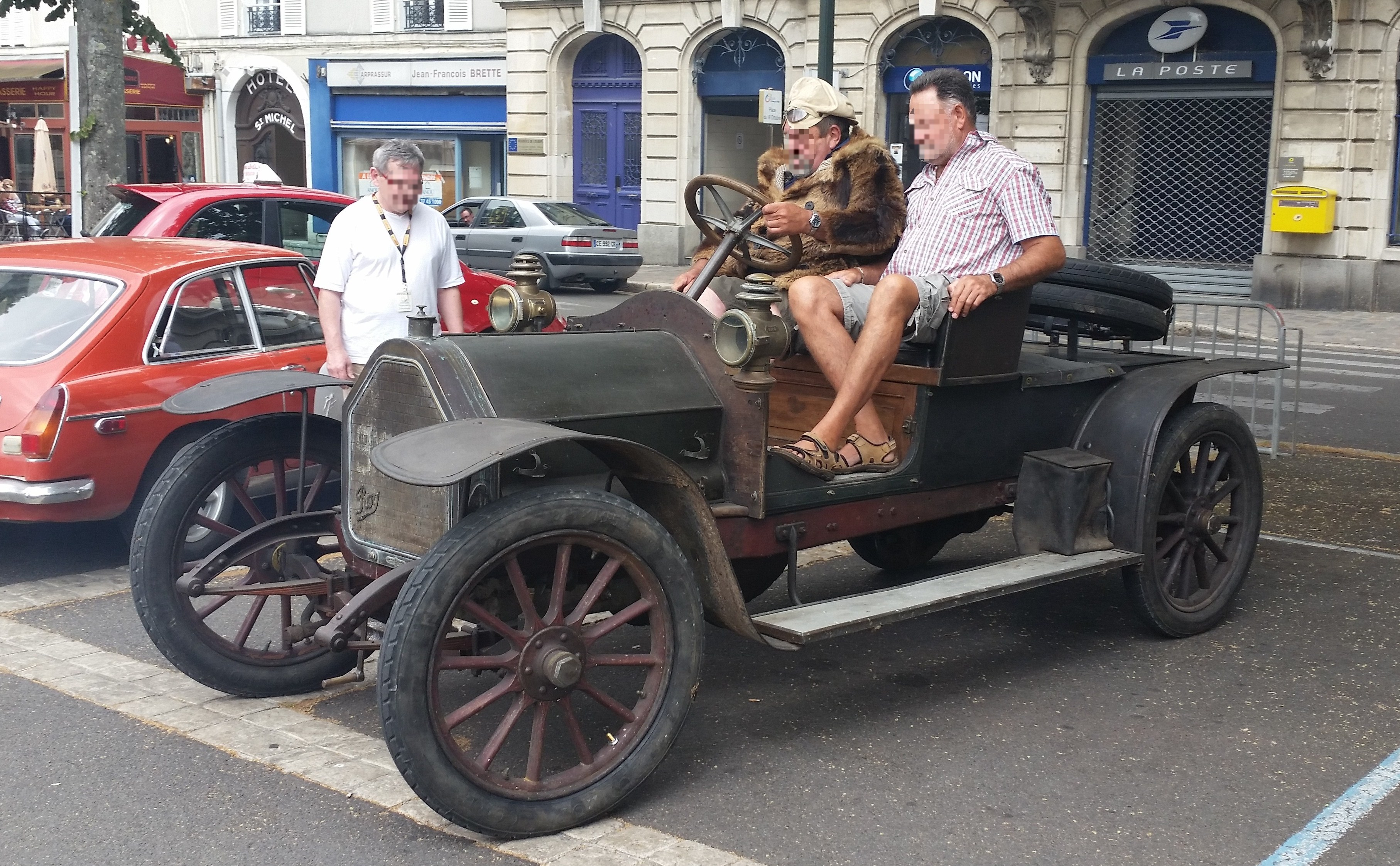 1904 vehicle produced by Pierre Roy in Montrouge.